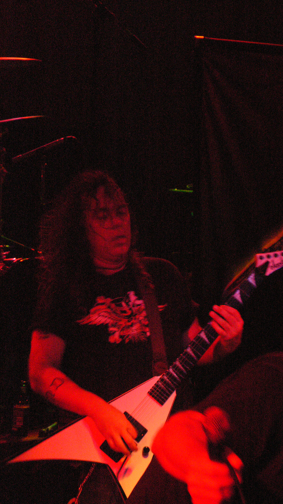 This is a picture of Ralph Santolla playing guitar with Obituary on 11 September 2007 at Jaxx Nightclub in West Springfield, Virginia. I took this picture with my Panasonic Lumix DMC-LX1 digital camera.